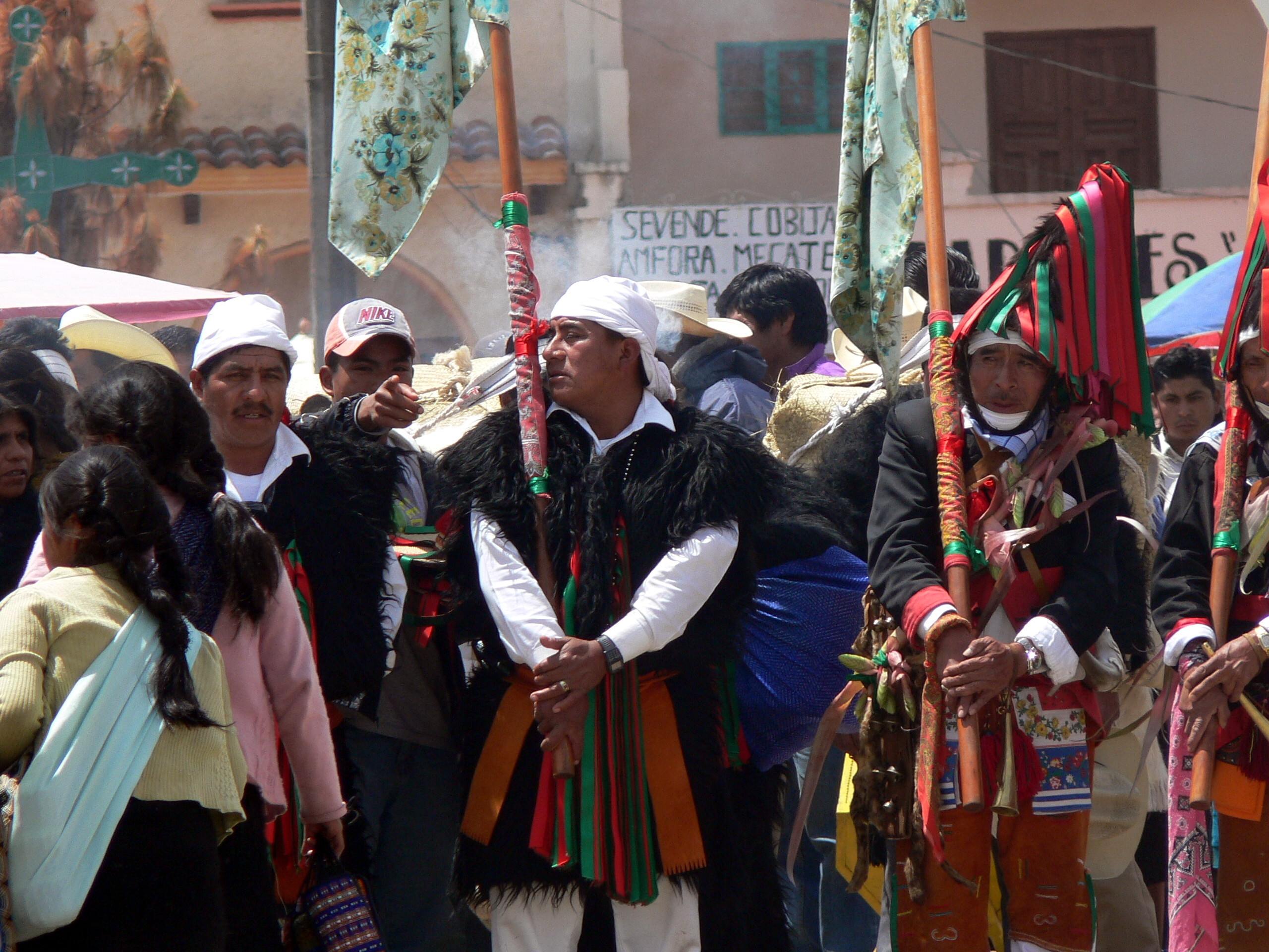 San Juan Chamula ( Chiapas ). Members of a procession in front of the church